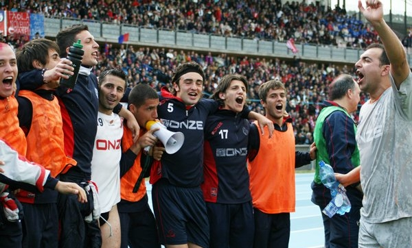 Fortitudo Cosenza, italian football team, celebration for promotion in Serie C2